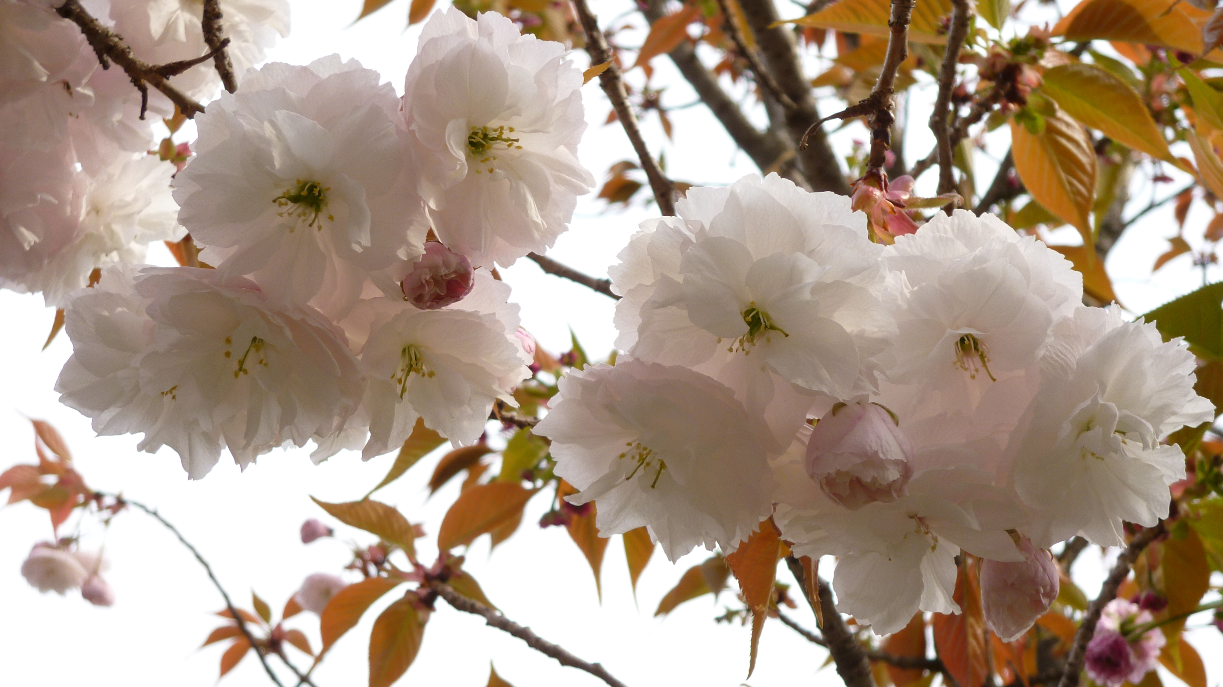 Flower of Prunus lannesiana 'Fugenzo' This image was taken at Injo-ji (Senbon Enmado), Kamigyō, Kyoto, Kyoto, Japan.